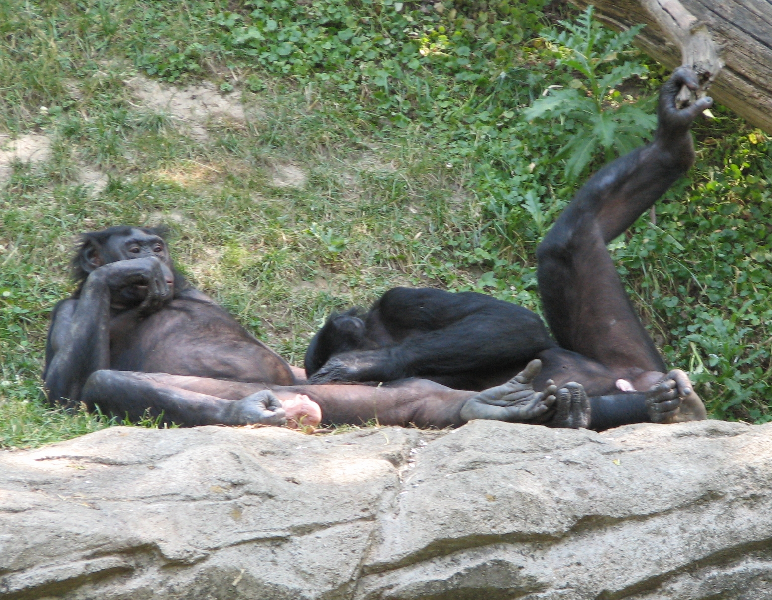 Bonobo